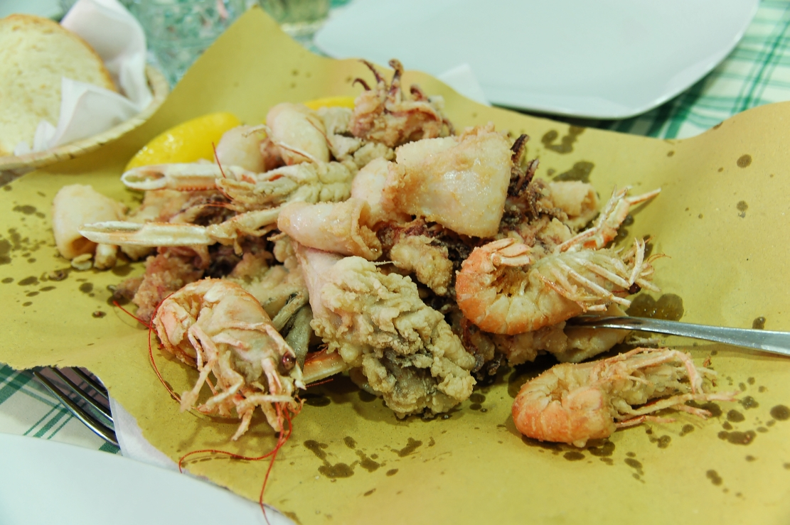 Frutti di Mare